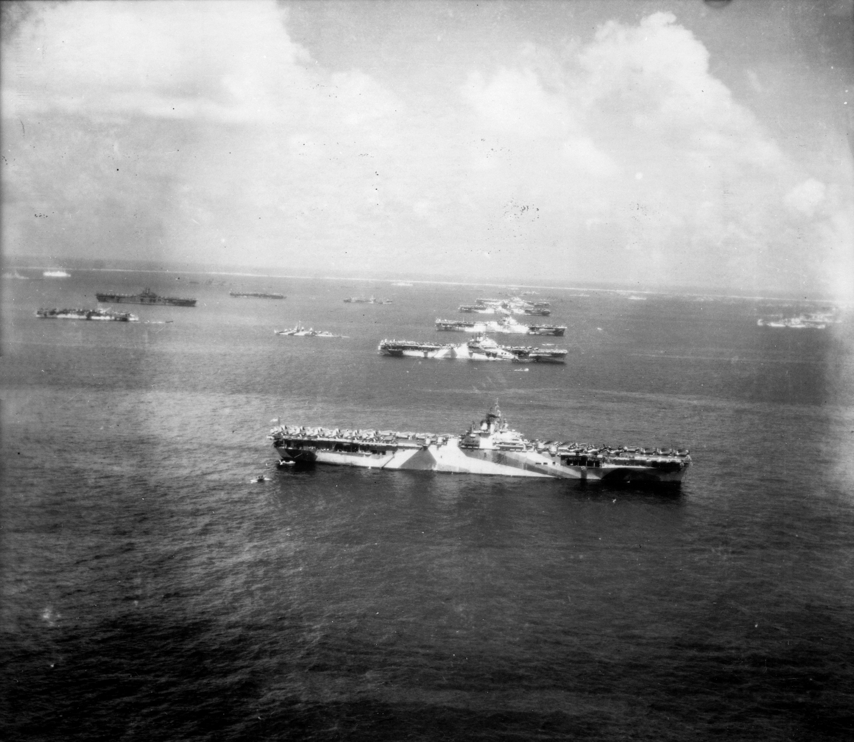 U.S. Third Fleet aircraft carriers at anchor in Ulithi Atoll, 8 December 1944, during a break from operations in the Philippines area. The carriers are (from front to back): USS Wasp (CV-18), USS Yorktown (CV-10), USS Hornet (CV-12), USS Hancock (CV-19) and USS Ticonderoga (CV-14). Wasp, Yorktown and Ticonderoga are all painted in camouflage Measure 33, Design 10a. The other Essex-class carrier painted in sea blue Measure 21 is USS Lexington (CV-16).